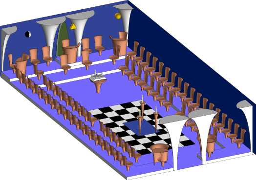 Virtual representation of a Masonic temple in Egyptian rite.